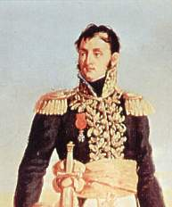 Jozef Bonaparte (1768-1844) - too old for copyright.